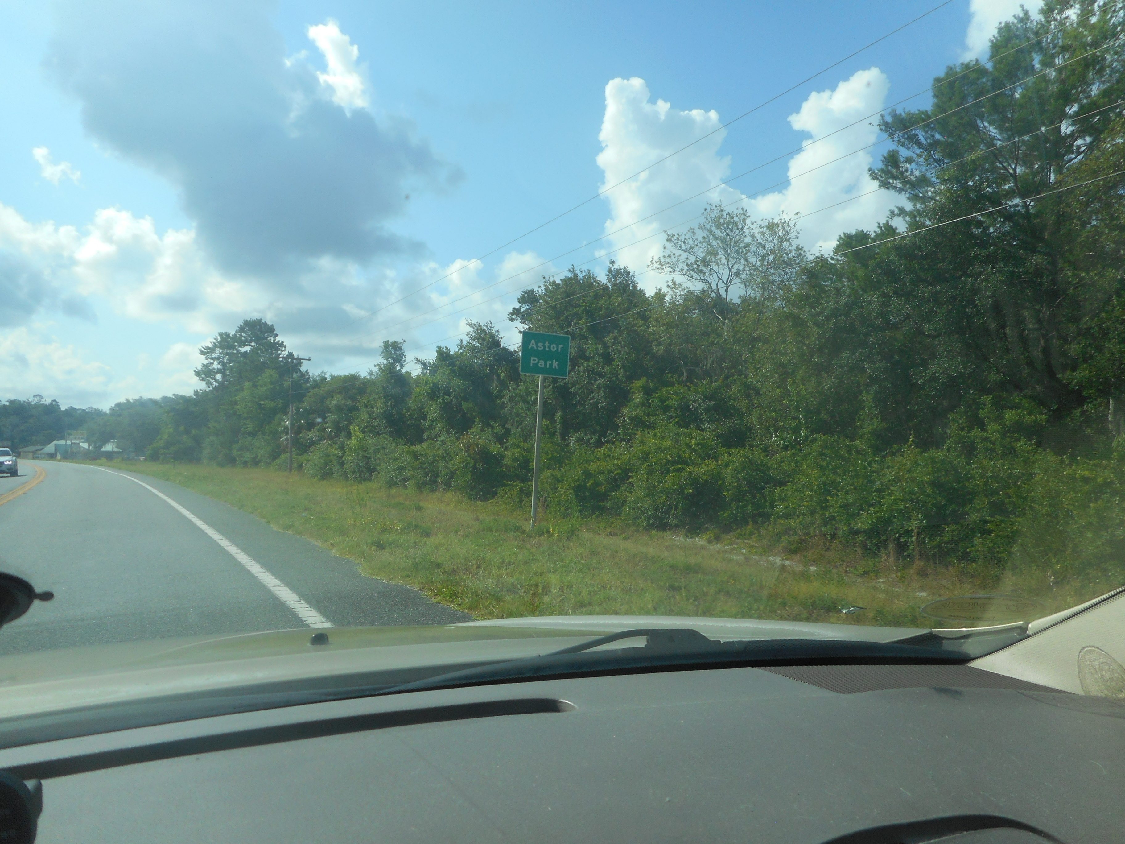 Eastbound Florida State Road 40 as it enters Astor Park, Florida in Lake County, Florida.